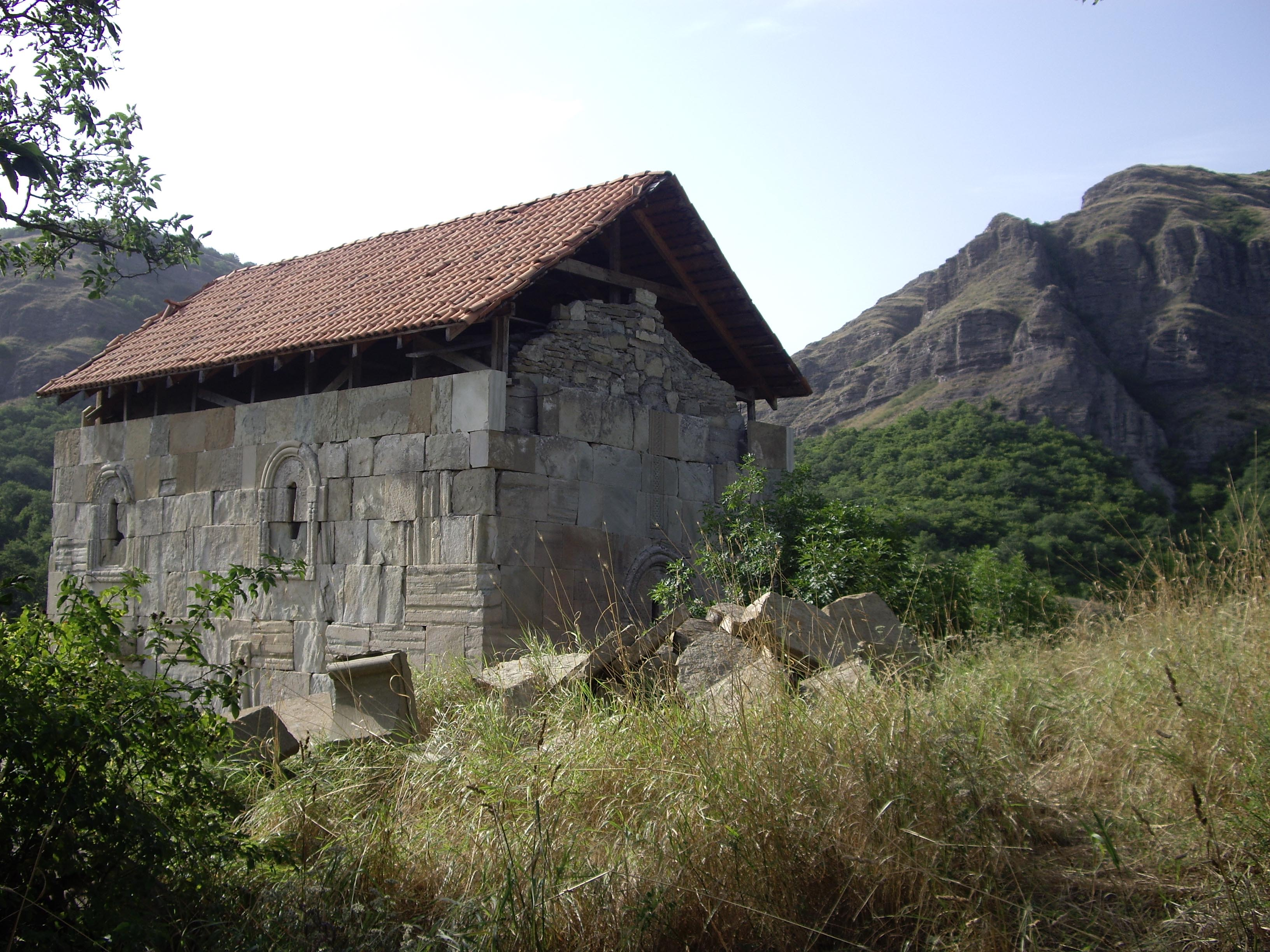 St. Michael church in Kabeni monastery comlex (Georgia)